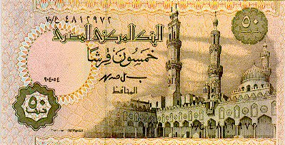 50 Egyptian piastres